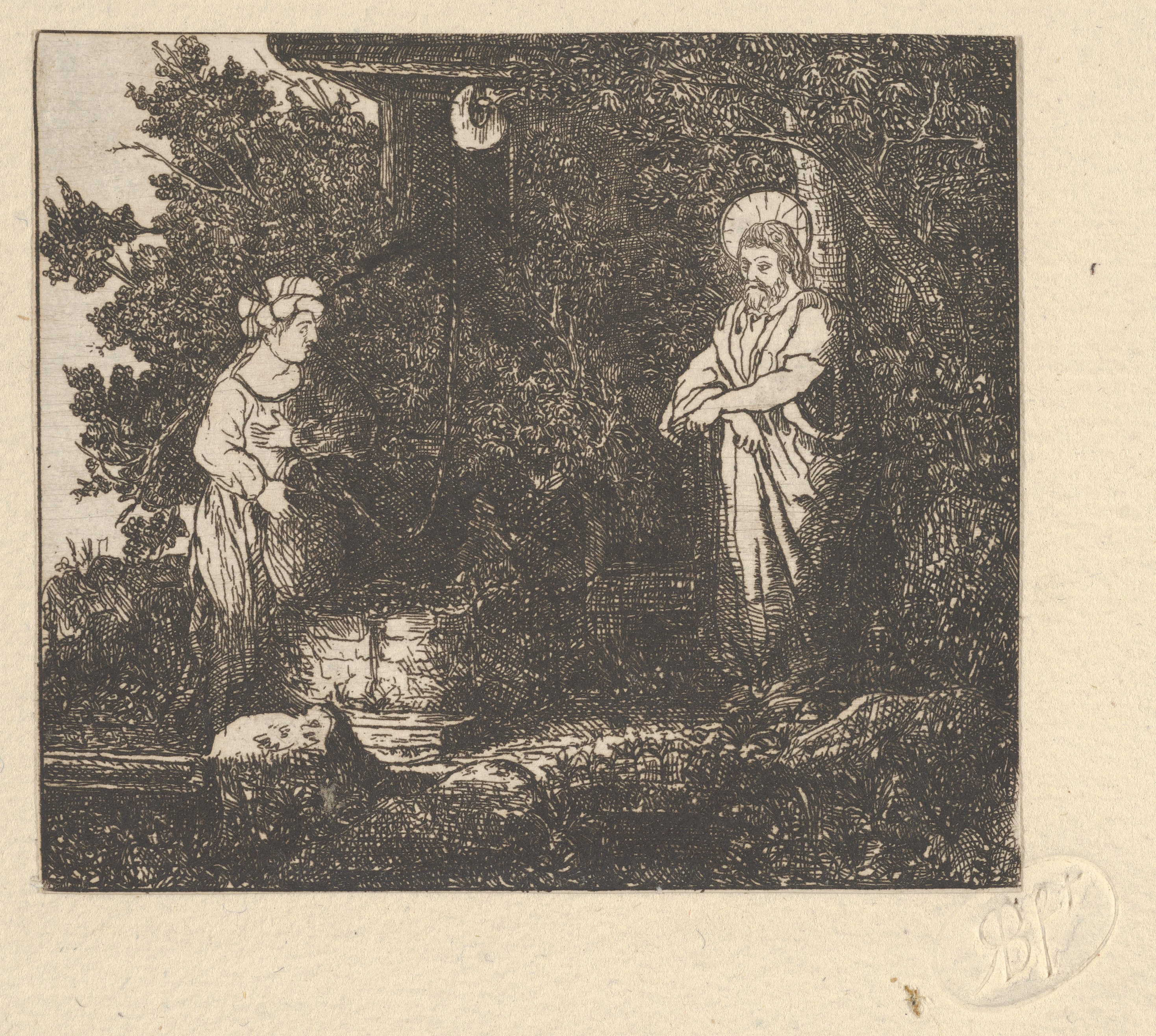 Print; Prints